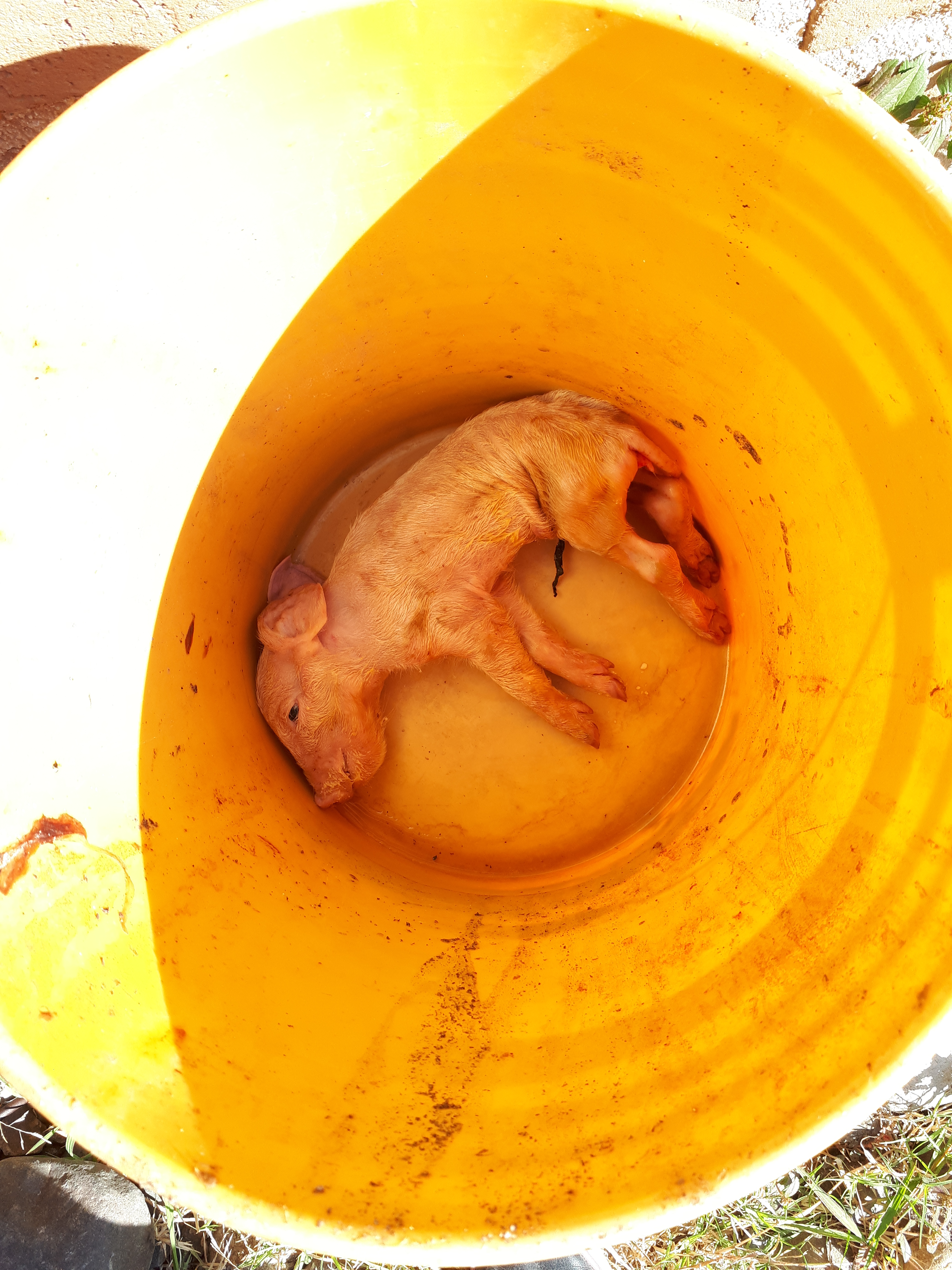 Porcine reproductive and respiratory syndrome virus (PRRSV)